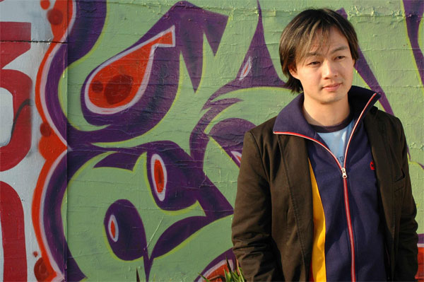 Composer Christopher Tin